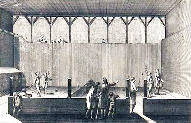 Late 18th-century illustration of a game of doubles ( may be jeu de paume or "real tennis" but the gallery is not seen ), in an indoor court that is wider, taller and shorter than those shown in many other 1600s-1700s illustrations of the game and compared to modern courts.